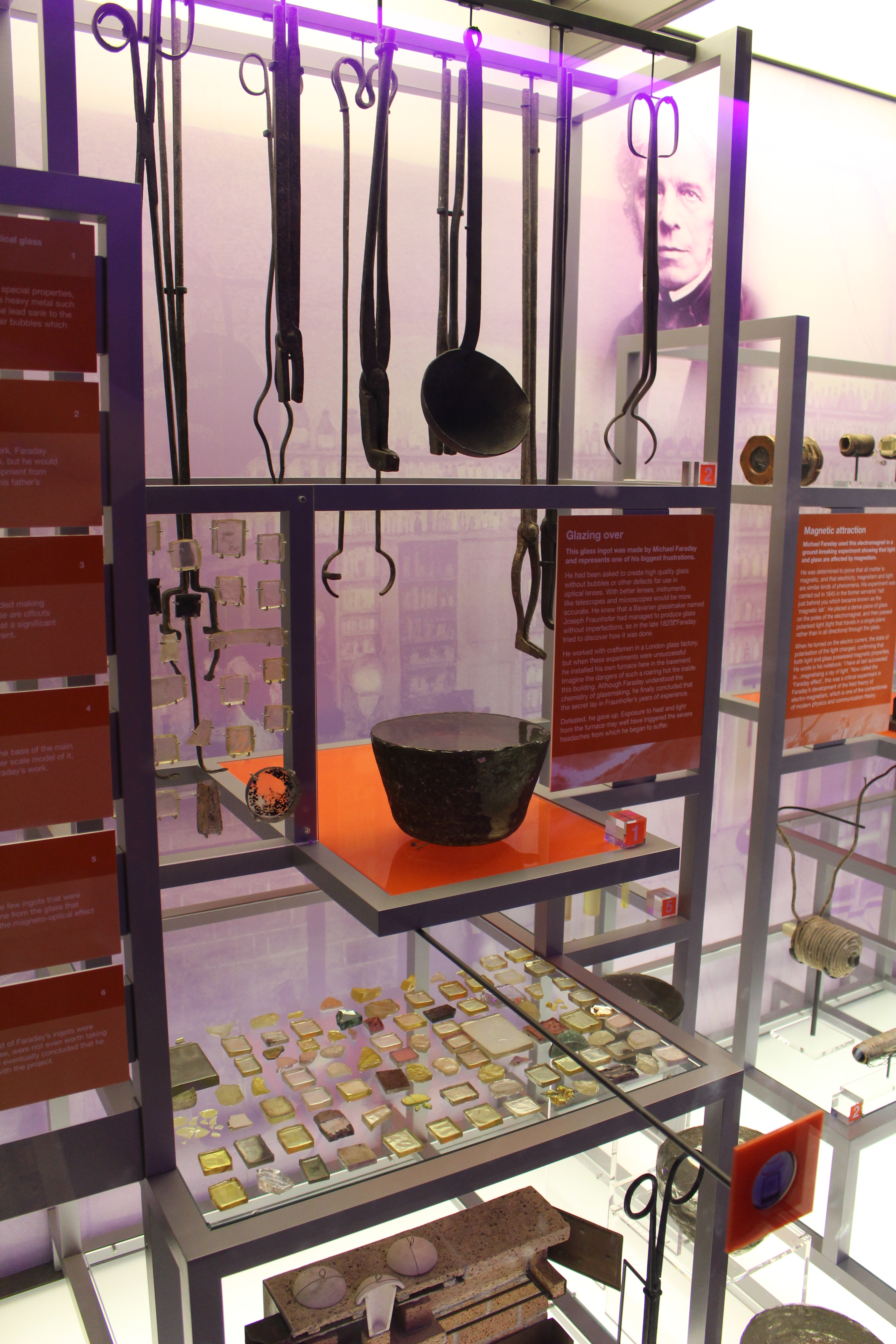 Pictures taken at the museum part of the Royal Institution building at 21 Albemarle St